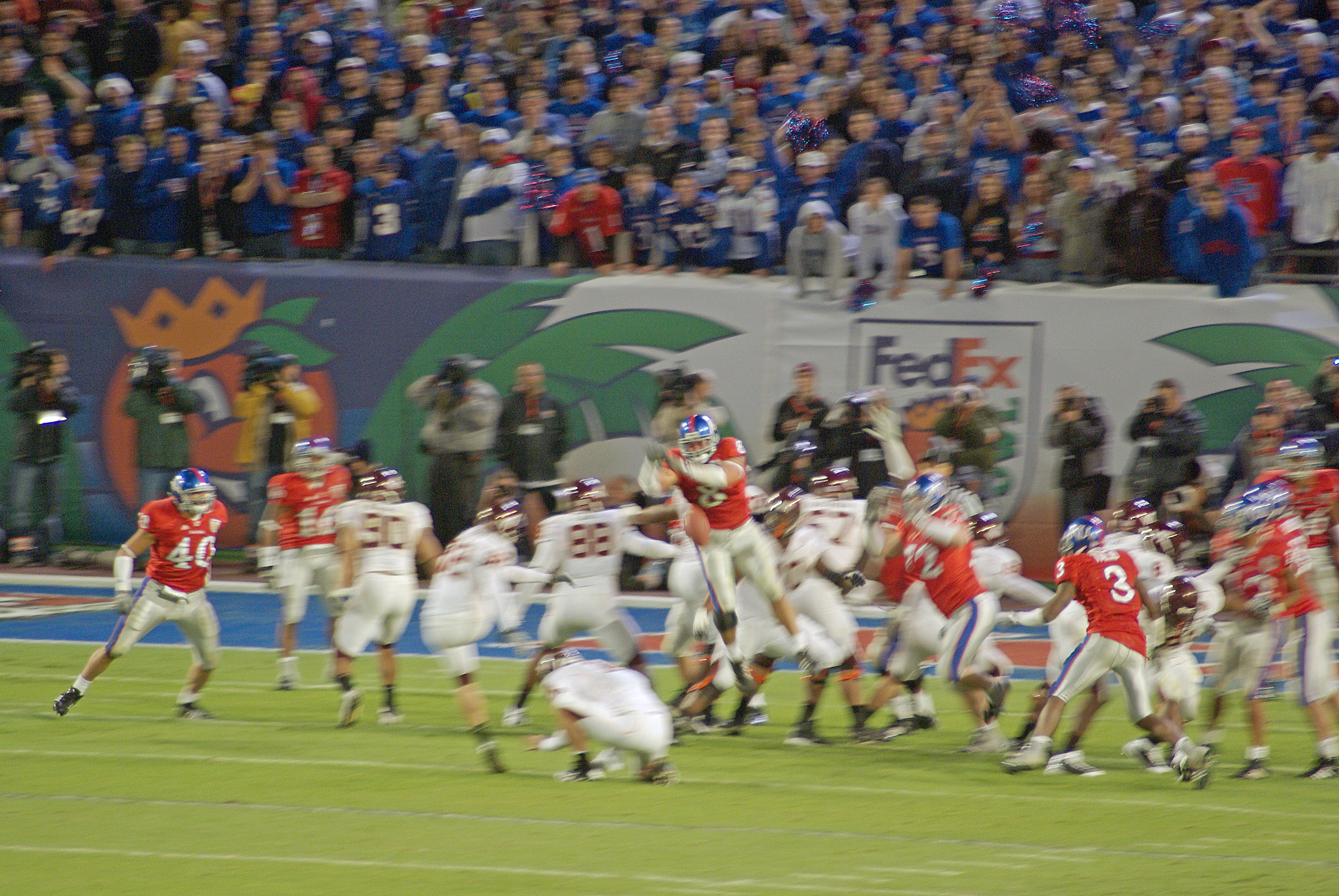 Kansas's Joe Mortensen breaks through the Virginia Tech line to block Jud Dunlevy's 25-yard field goal attempt. The kick would have tied the game at 17-17 late in the third quarter.